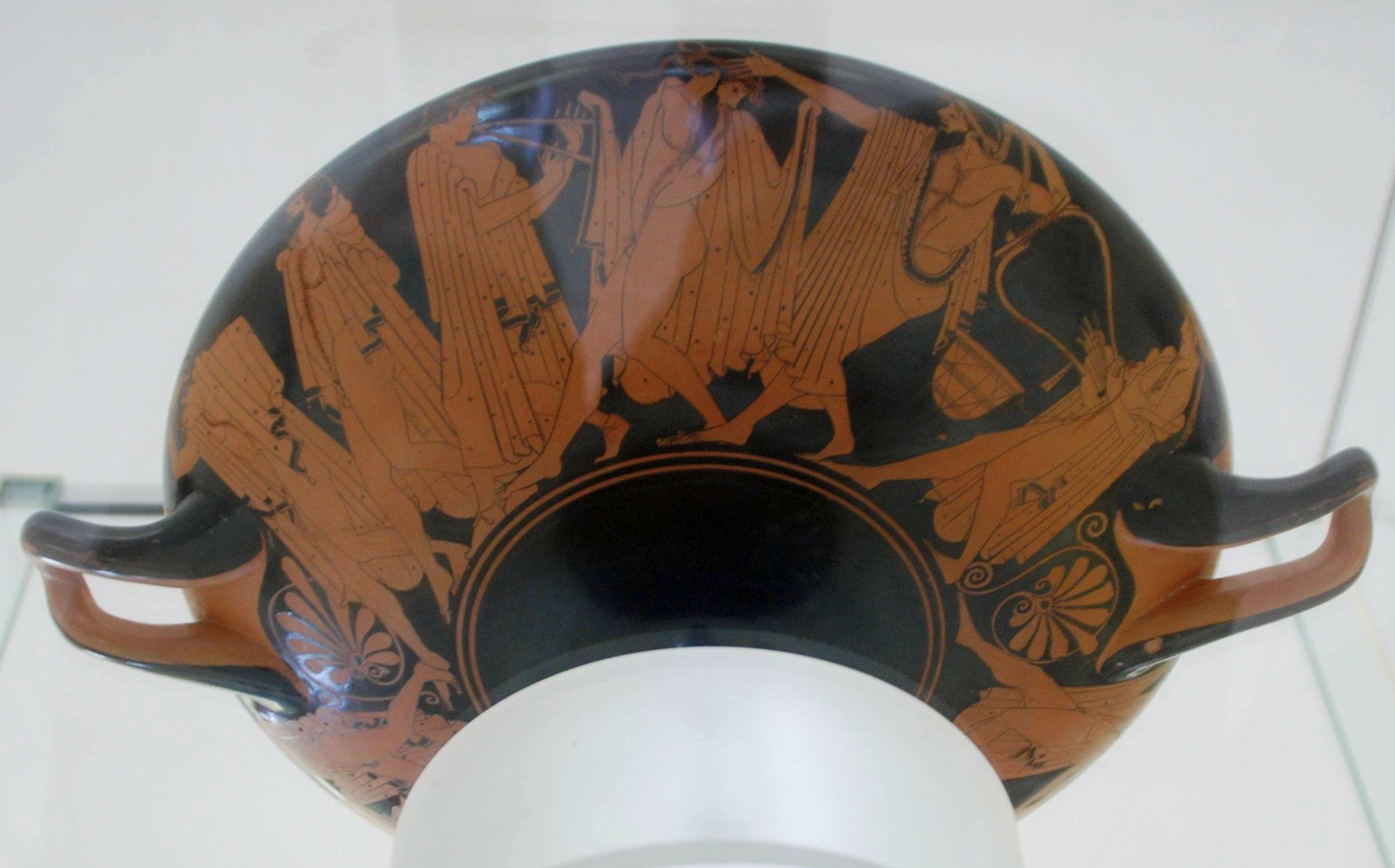 Attic Kylix made (signed) by the potter Brygos, painted by the Brygos painter; Tondo: vomiting young man at a symposium, head held by a blonde Hetaira, outsites: Komasts; Martin von Wagner Museum Würzburg (Inventarnumber HA 428 [= L 479]; High 14 cm, Diameter 32,2 cm